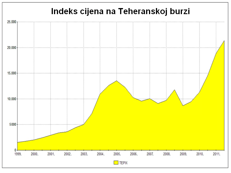 TEPIX All Share Price Index, Tehran Stock Exchange (January 1999-January 2011)